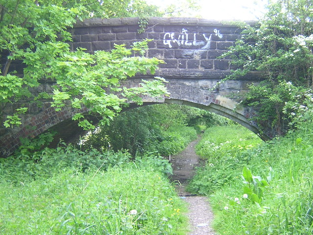 Dismantled Railway Line under St Johns Road, Yeadon. There used to be a branch line from Esholt Junction (near Guiseley) to Yeadon. The line is regularly walked by dog lovers and others.